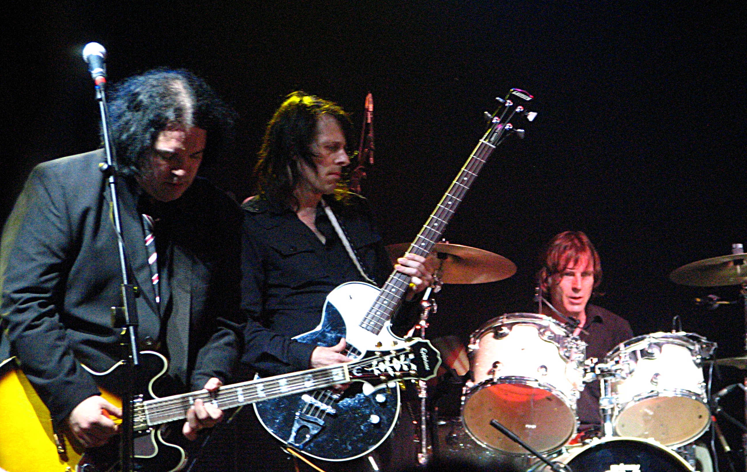 Big Star on stage at Hyde Park, London, UK